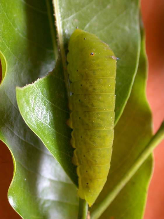 Common Jay Graphium doson caterpillar